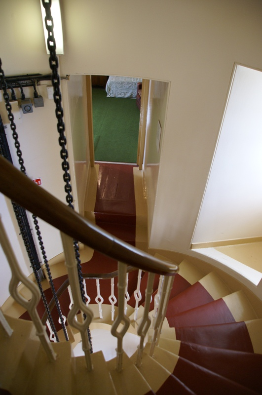 Kinnaird Head Castle Lighthouse, Fraserburgh, Aberdeenshire, Scotland. Stairs inside donjon/lighthouse.